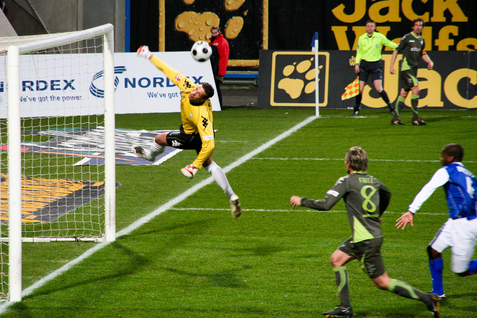 Tim Wiese (FC Hansa Rostock - SV Werder Bremen)